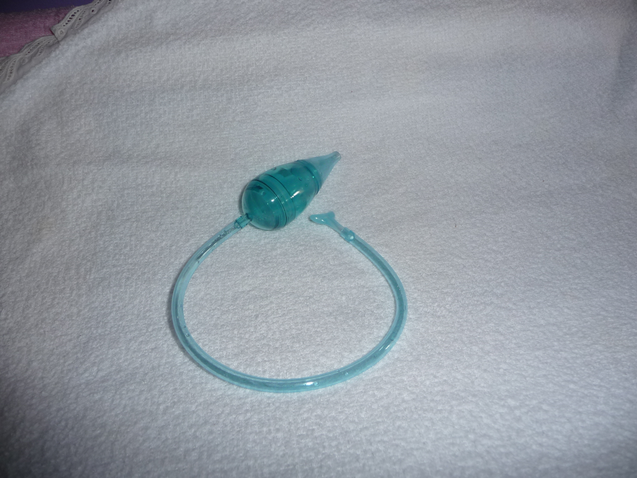 Suction Trap that works by human inhalation